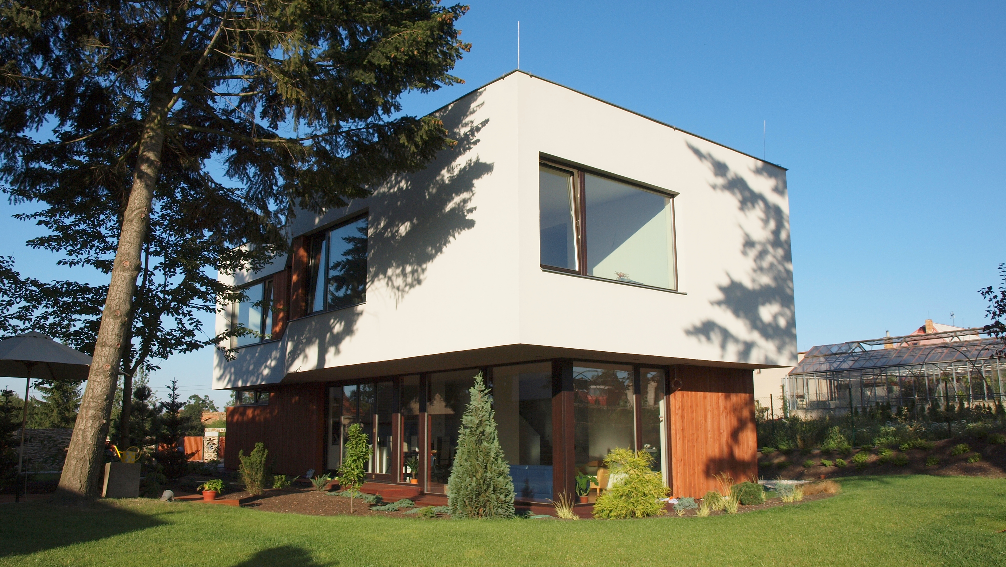 Example of an intelligent building